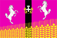 Flag of Shkurinskoe rural settlement, Krasnodar Territory, Russia